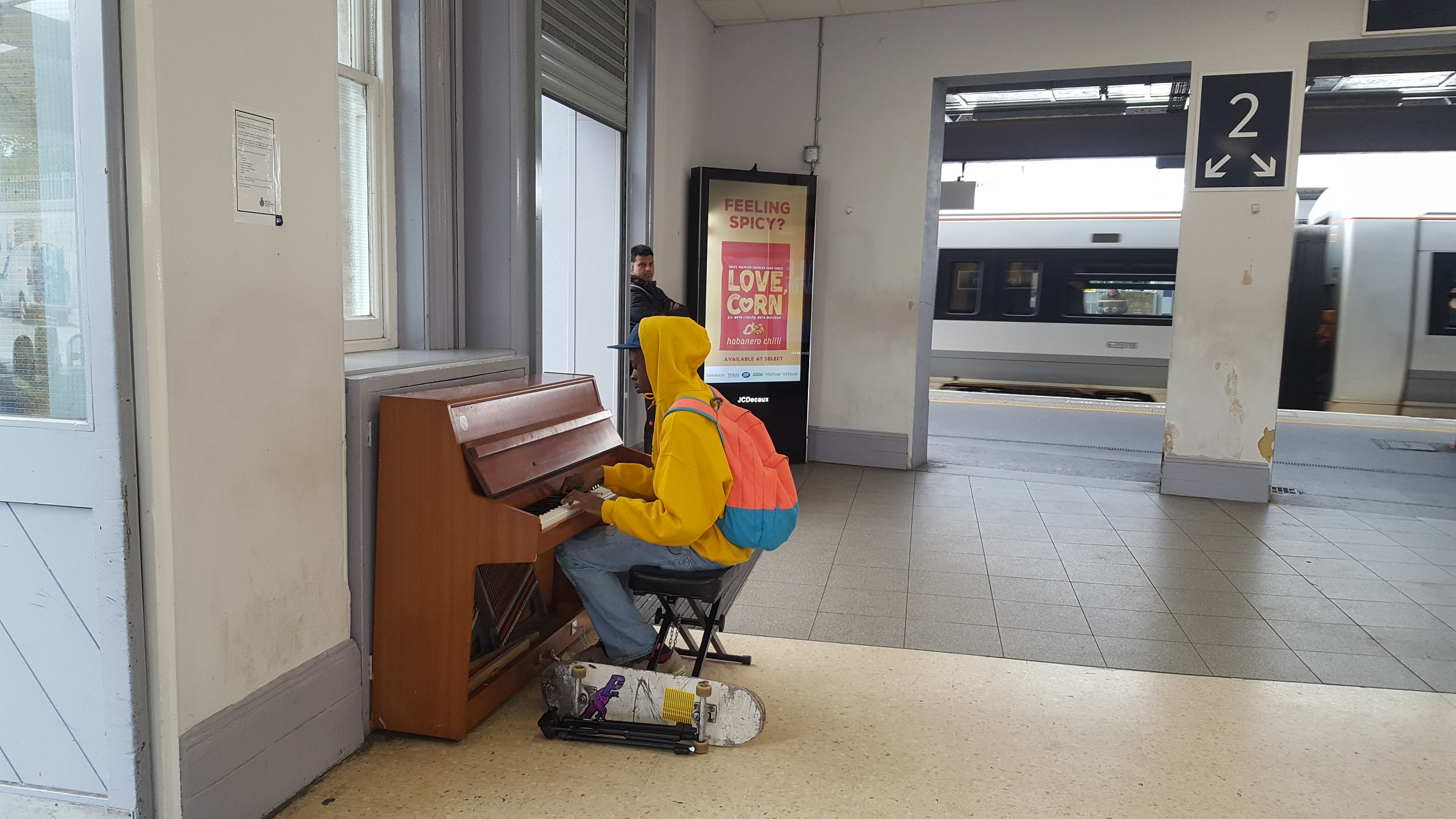 Lewisham National Rail and Docklands Light Railway station in south-east London - The piano in Lewisham station has its own twitter account